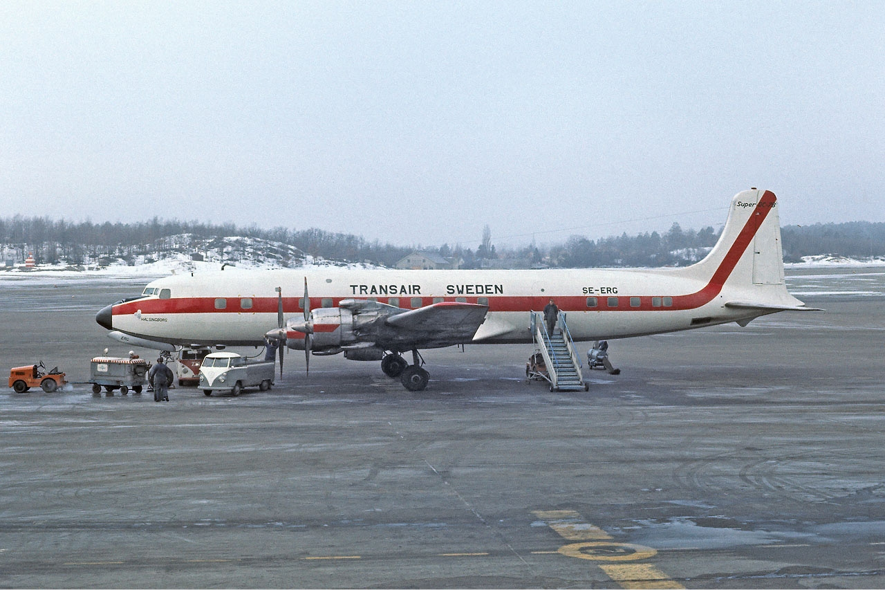 Transair Sweden Douglas DC-7B